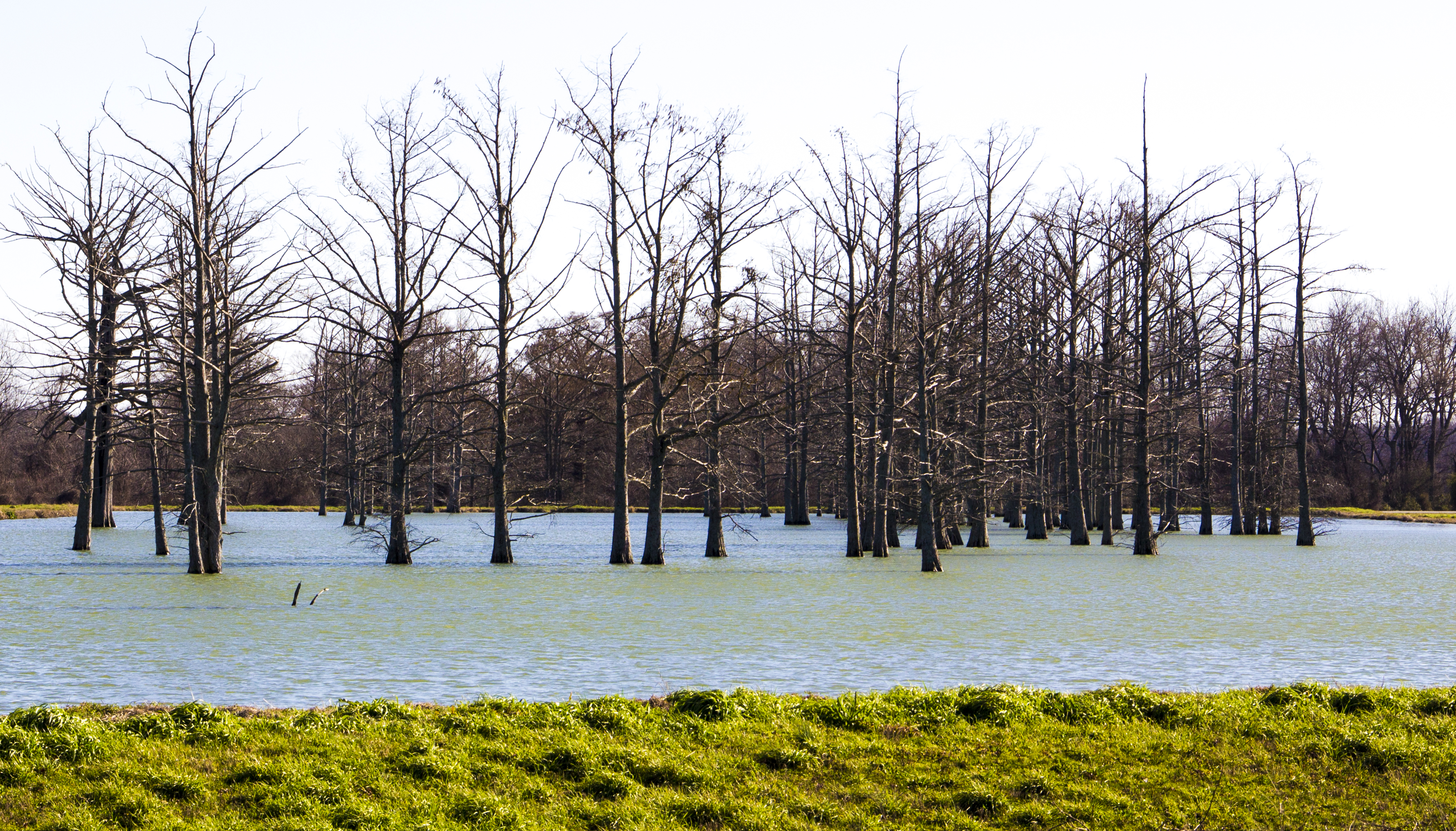 Flooded Trees